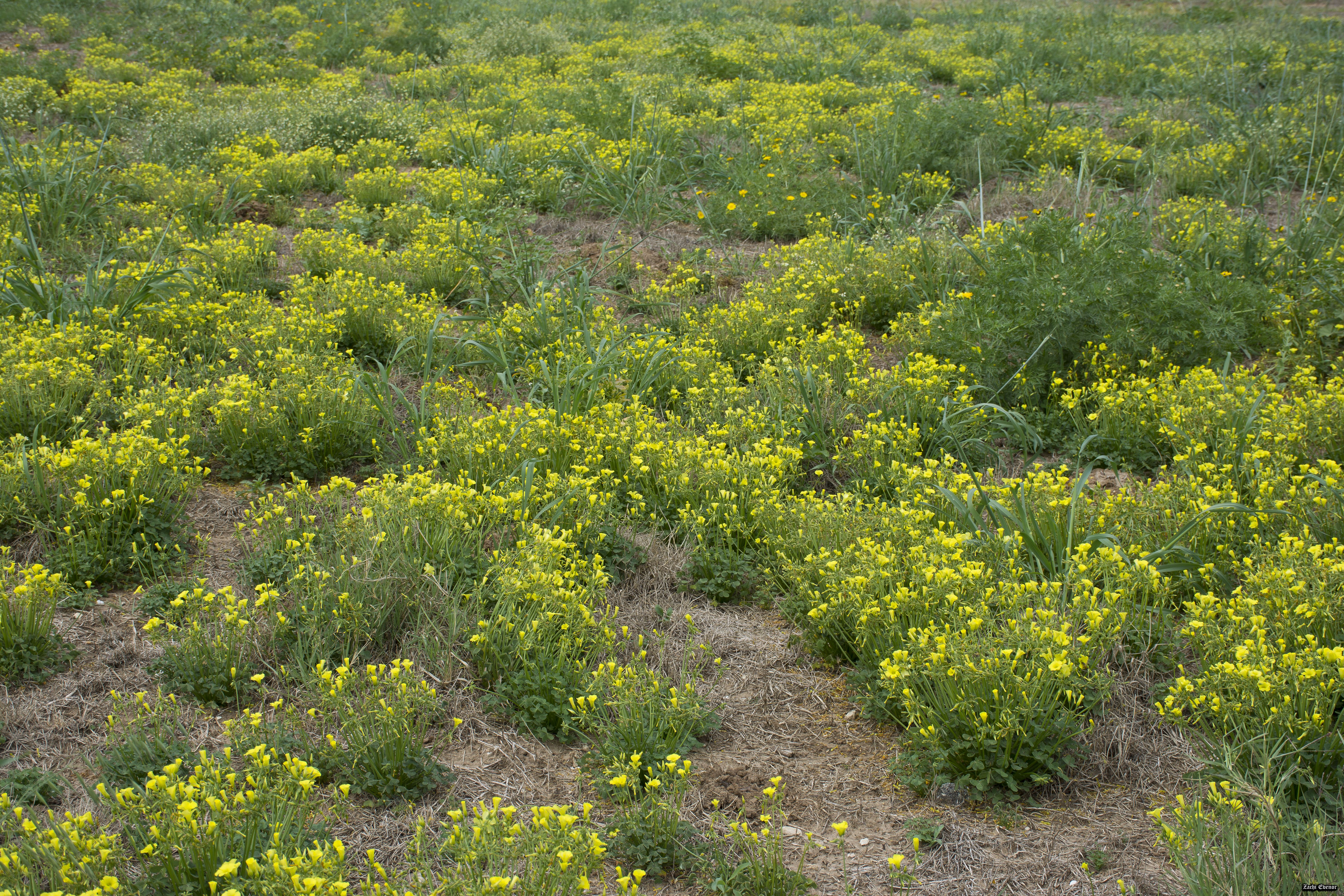 Oxalis pes-caprae, Volcani Institute of Agriculture, Rishon LeZion, Israel